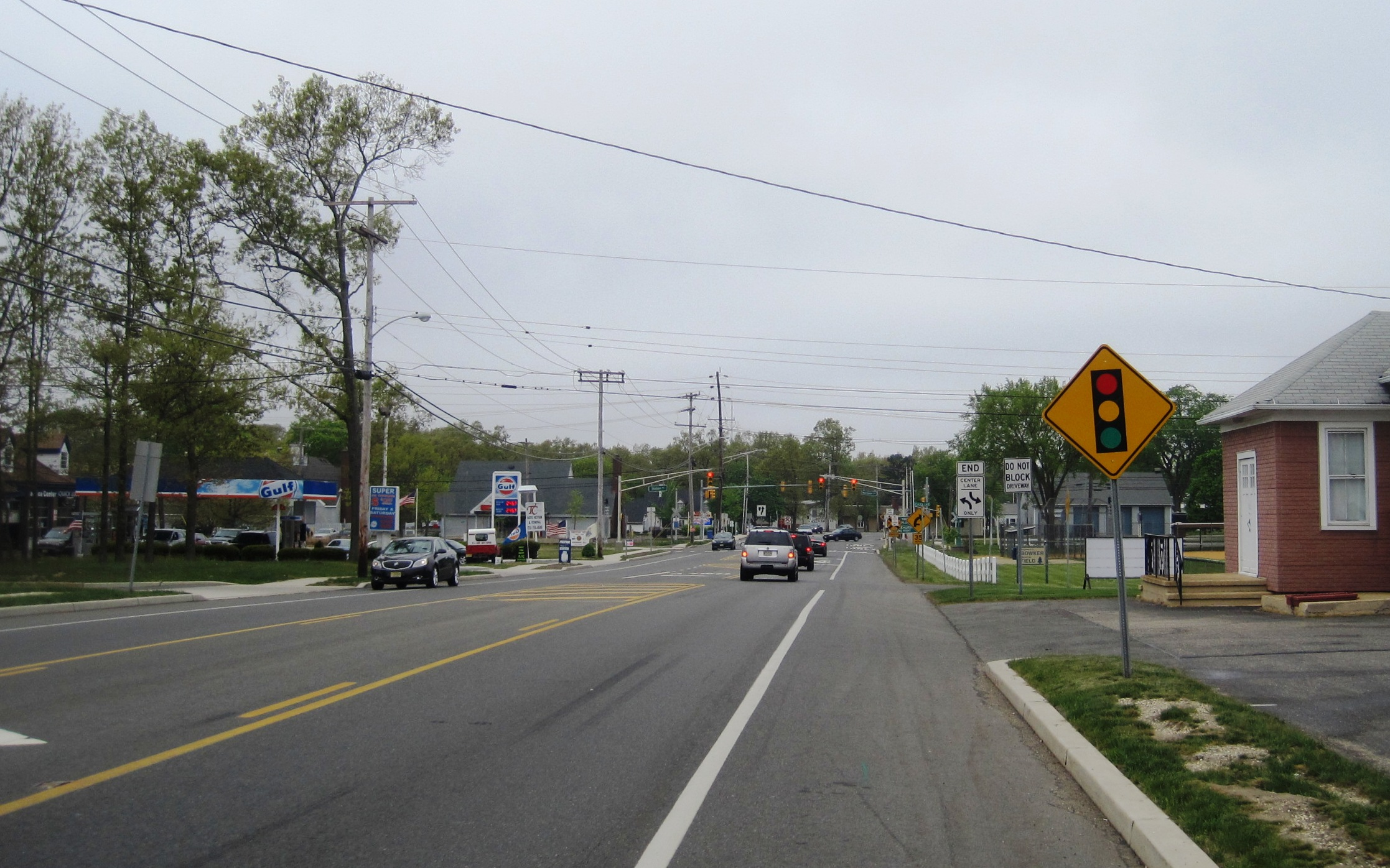 Photo showing the center of Whiting, New Jersey, a census designated place within Manchester Township. Photo taken along County Route 530 westbound approaching Station Road.